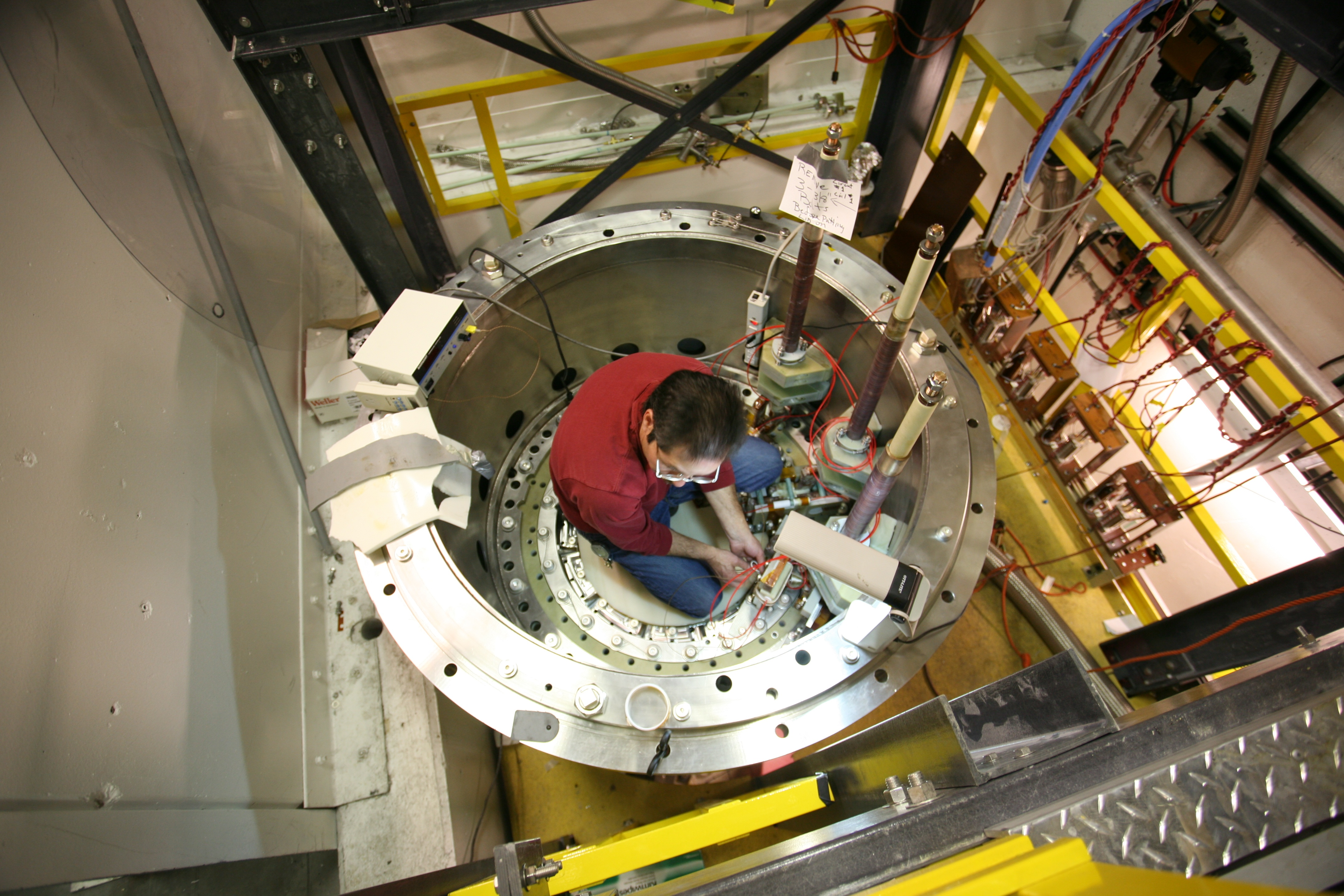 THE 100-TESLA MULTI-SHOT MAGNET, BEING ASSEMBLED BY MIKE PACHECO, IS THE FLAGSHIP OF THE NATIONAL HIGH MAGNETIC FIELD LABORATORY PULSED FIELD FACILITY. Powerful magnets-some the most powerful in the world-are available to researchers visiting the National High Magnetic Field Laboratory's Pulsed Field Facility. Located high on a mesa at Los Alamos National Laboratory, the NHMFL-PFF is the only pulsed high field user facility in the country as well as the center of exceptional condensed matter physics research. For more information or additional images, please contact 202-586-5251.